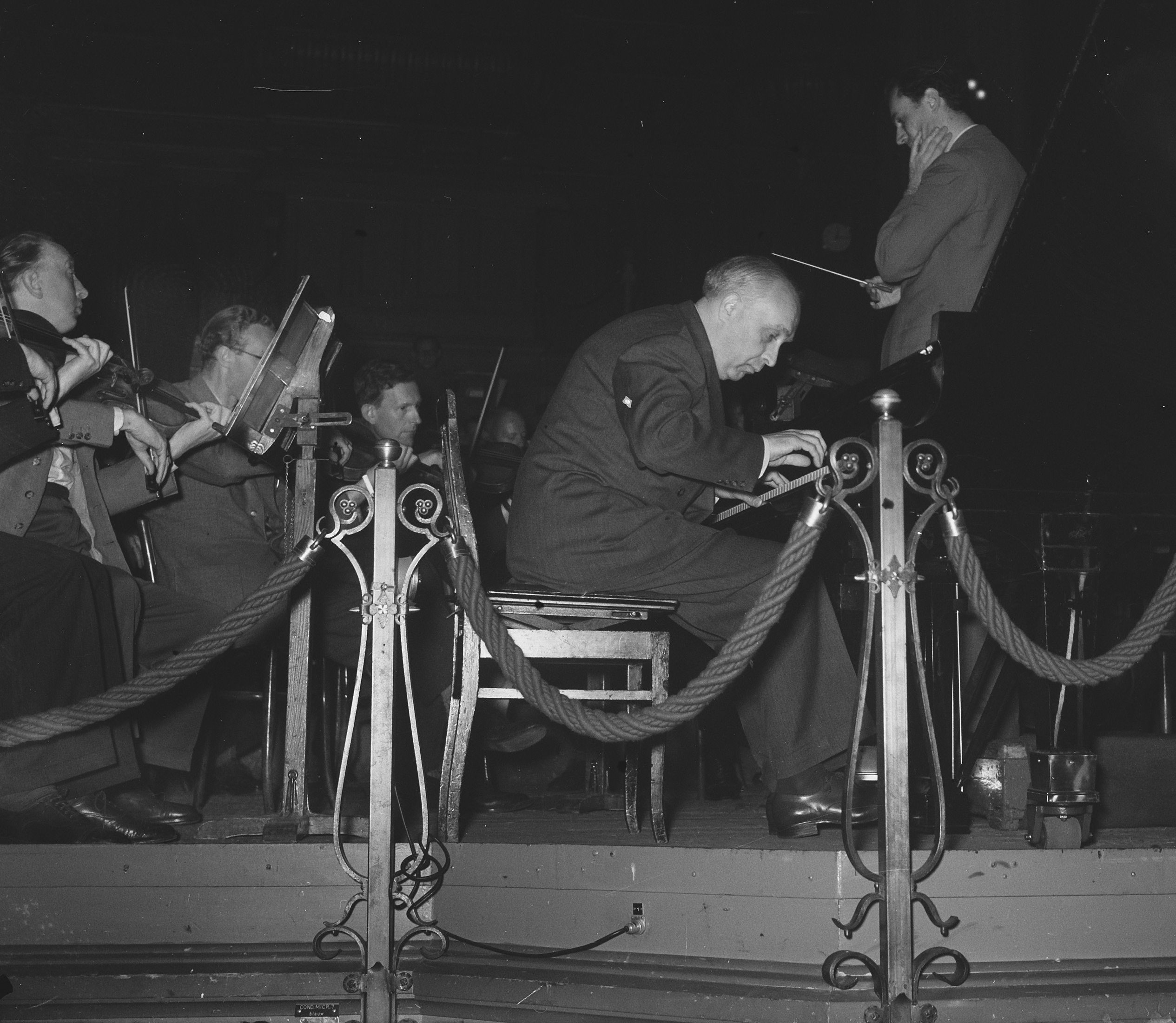 Robert Casadesus in the Concertgebouw Amsterdam, 1951